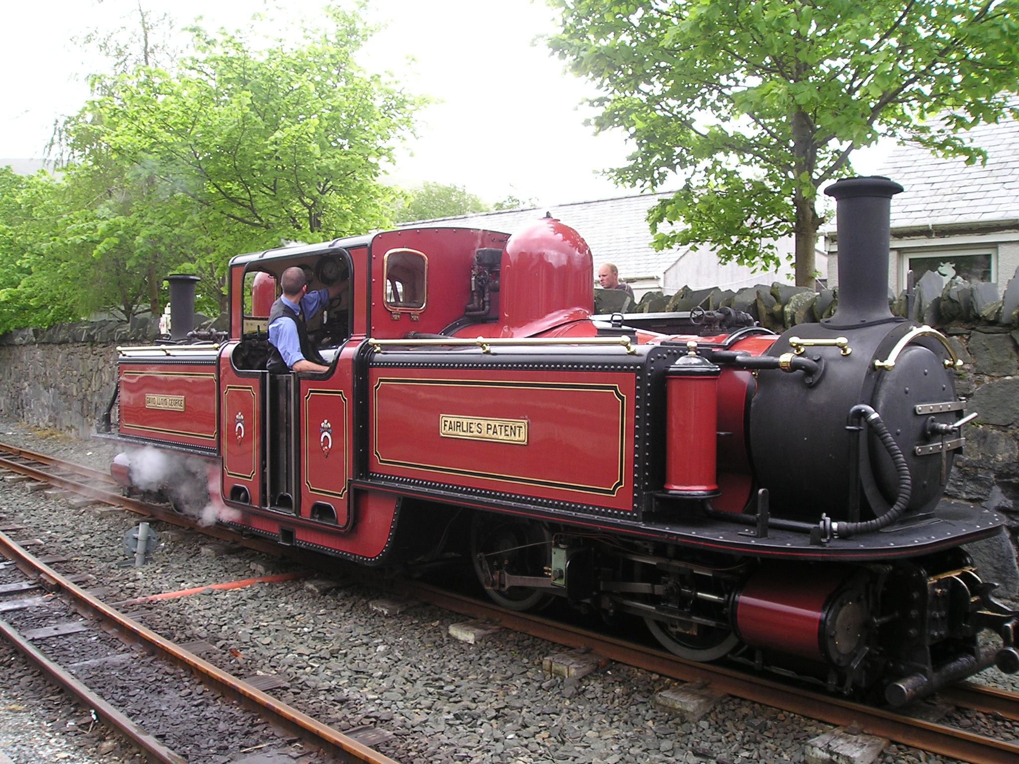 Ffestinog Railway double Fairlie engine David Lloyd George at Bleanau Ffestiniog station